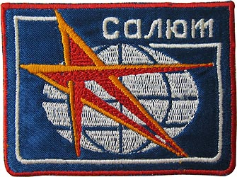 Salyut logo from the Soyuz T-15 mission.